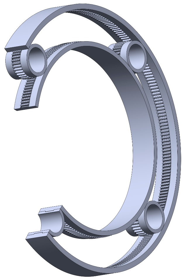 Gear bearing view with cut of view